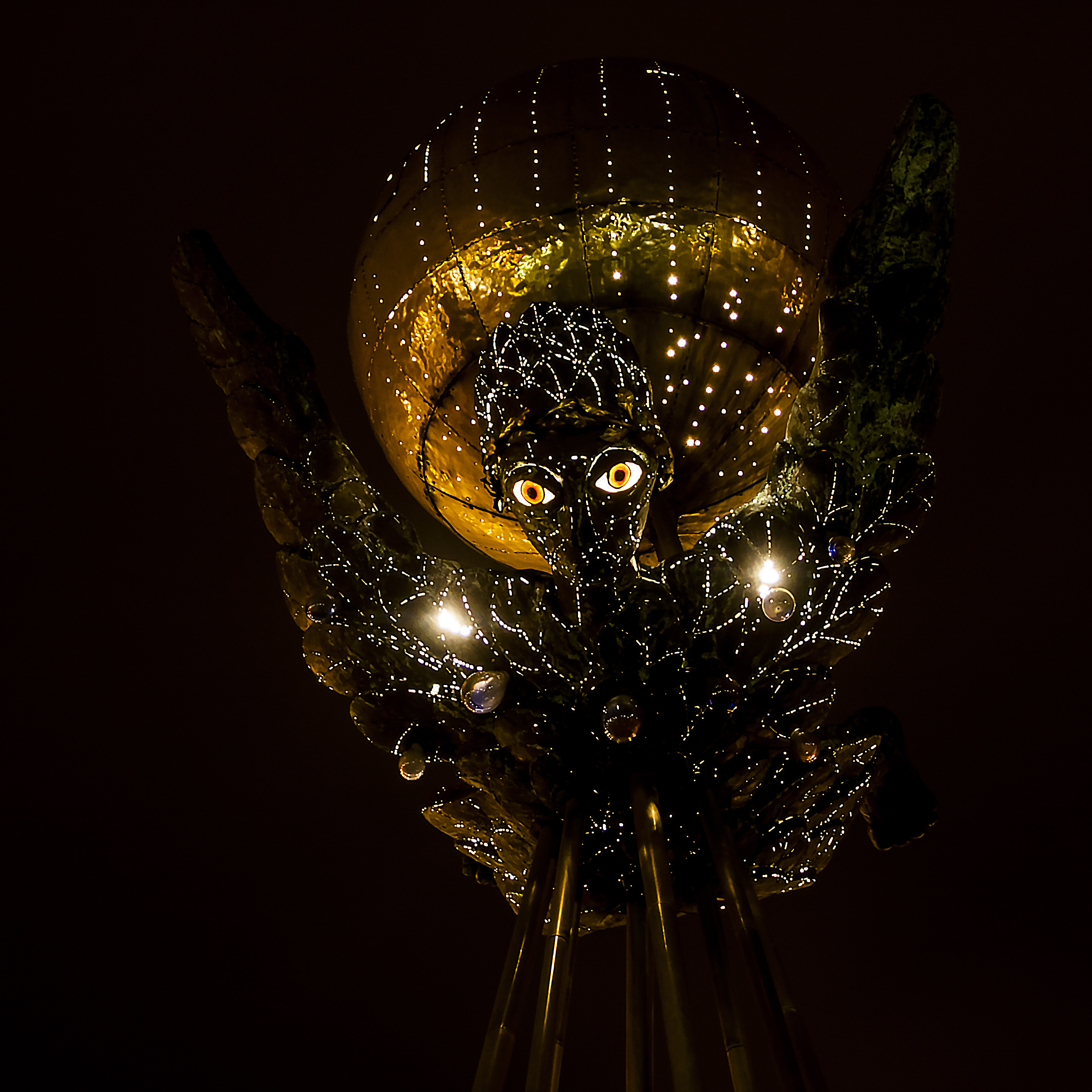 Detail from sculpture "Ikaros flyger mot solen", Icarus flying to the sun, by Swedish artist Walter Bengtsson 1992, placed in Hässleholm, Sweden.